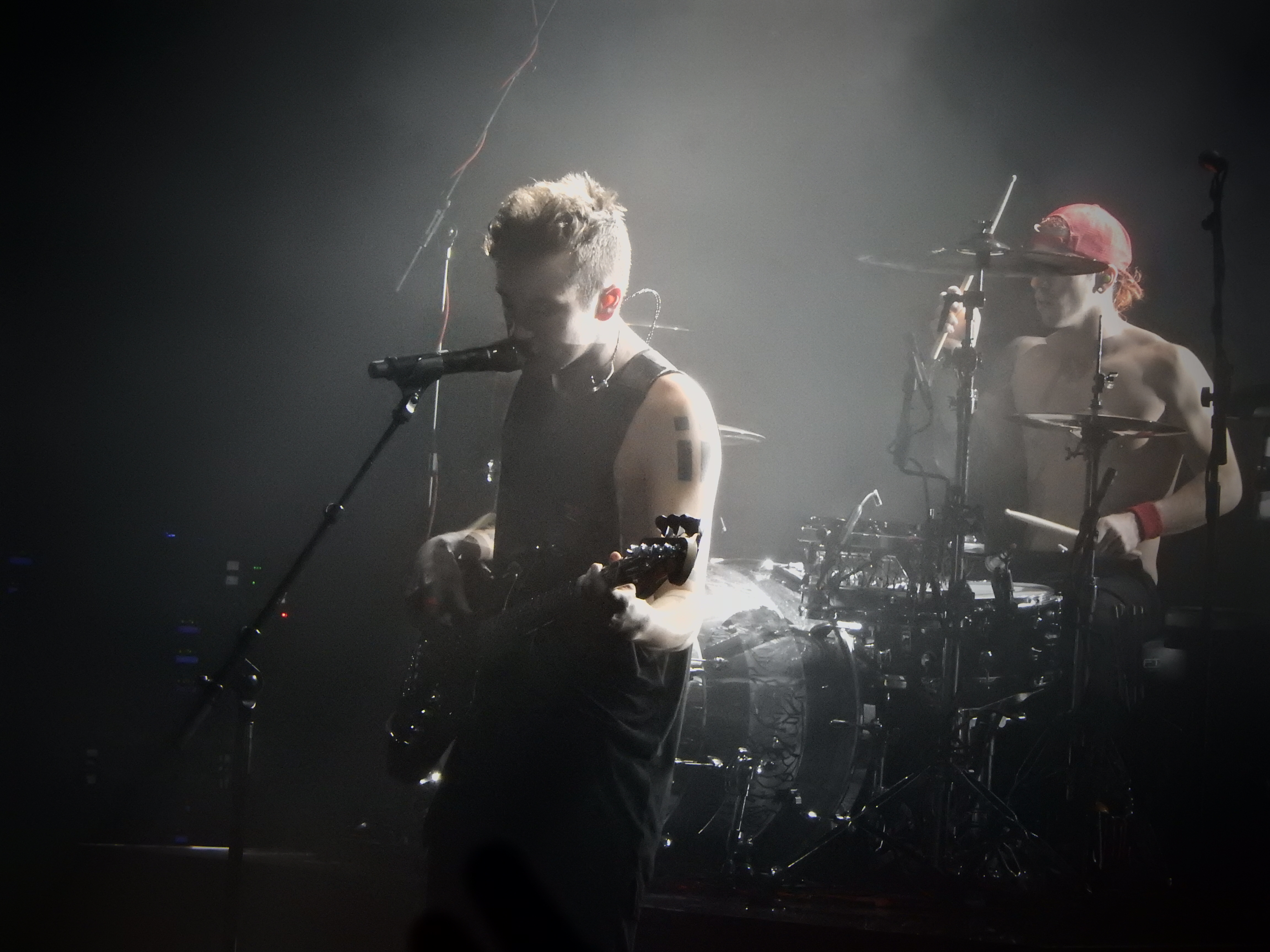 Twenty One Pilots, Brixton Academy, London